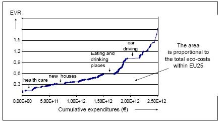 spending